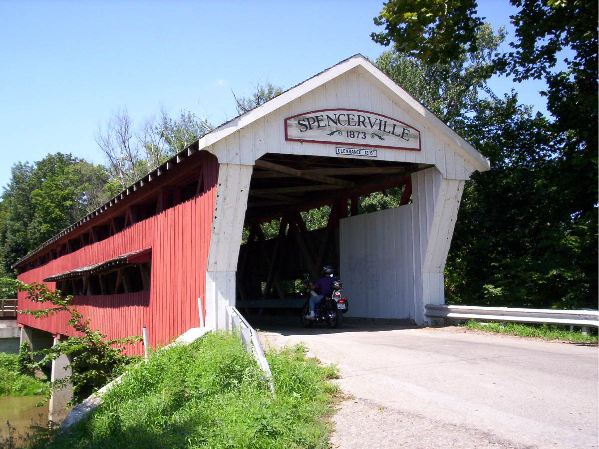 Spencerville Covered Bridge DeKalb County, Indiana August 10, 2007 The Spencerville Covered Bridge was built in 1873 by John A. McKay at a cost of $3,370 and it carries Mill Street (County Road 8) over the St Joseph River. It was extensively restored in 1990. This bridge has 4 main spans for a length of 146 feet. The structure of this bridge is a Smith #4 truss, developed by the Smith Bridge Company, Toledo, Ohio.